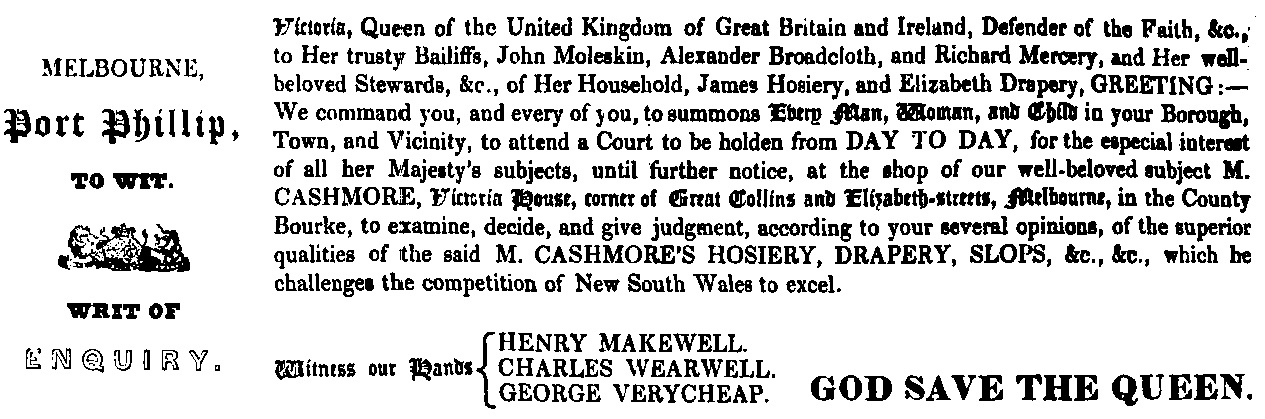 Advertisement for Michael Cashmore's drapery store, Melbourne